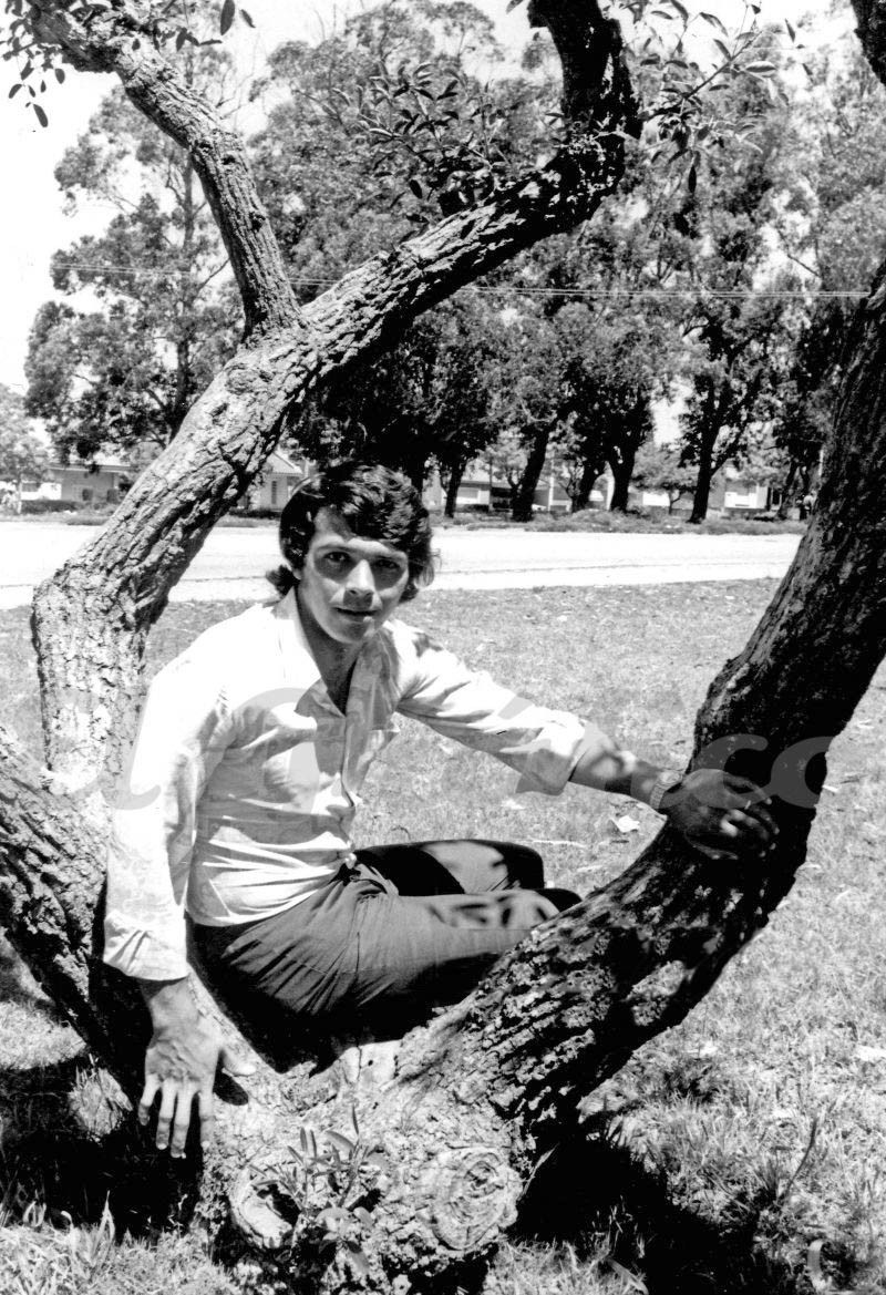 Chilean footballer Elías Figueroa.